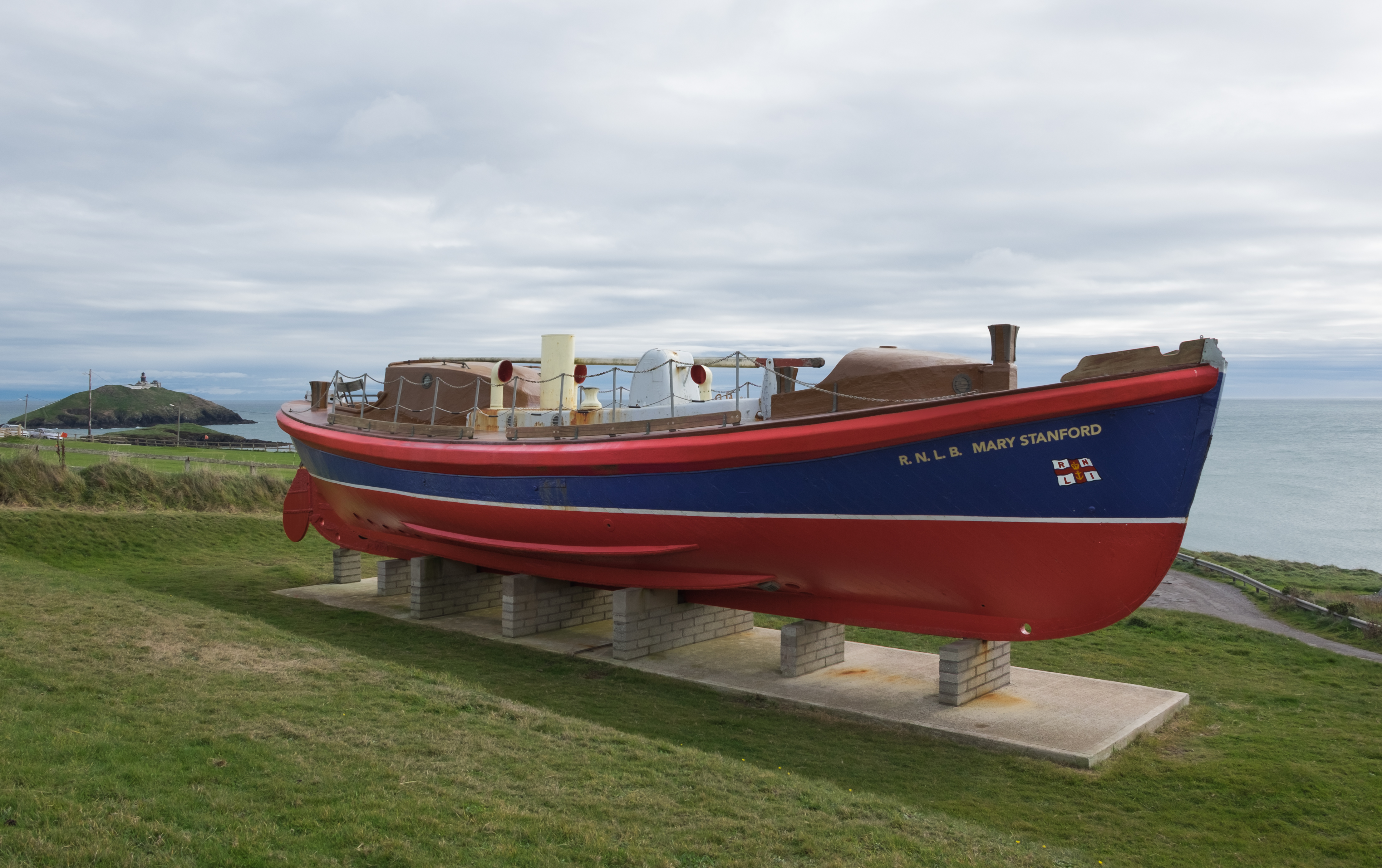 The preserved RNLB Mary Stanford lifeboat in Ballycotton, County Cork, Ireland.